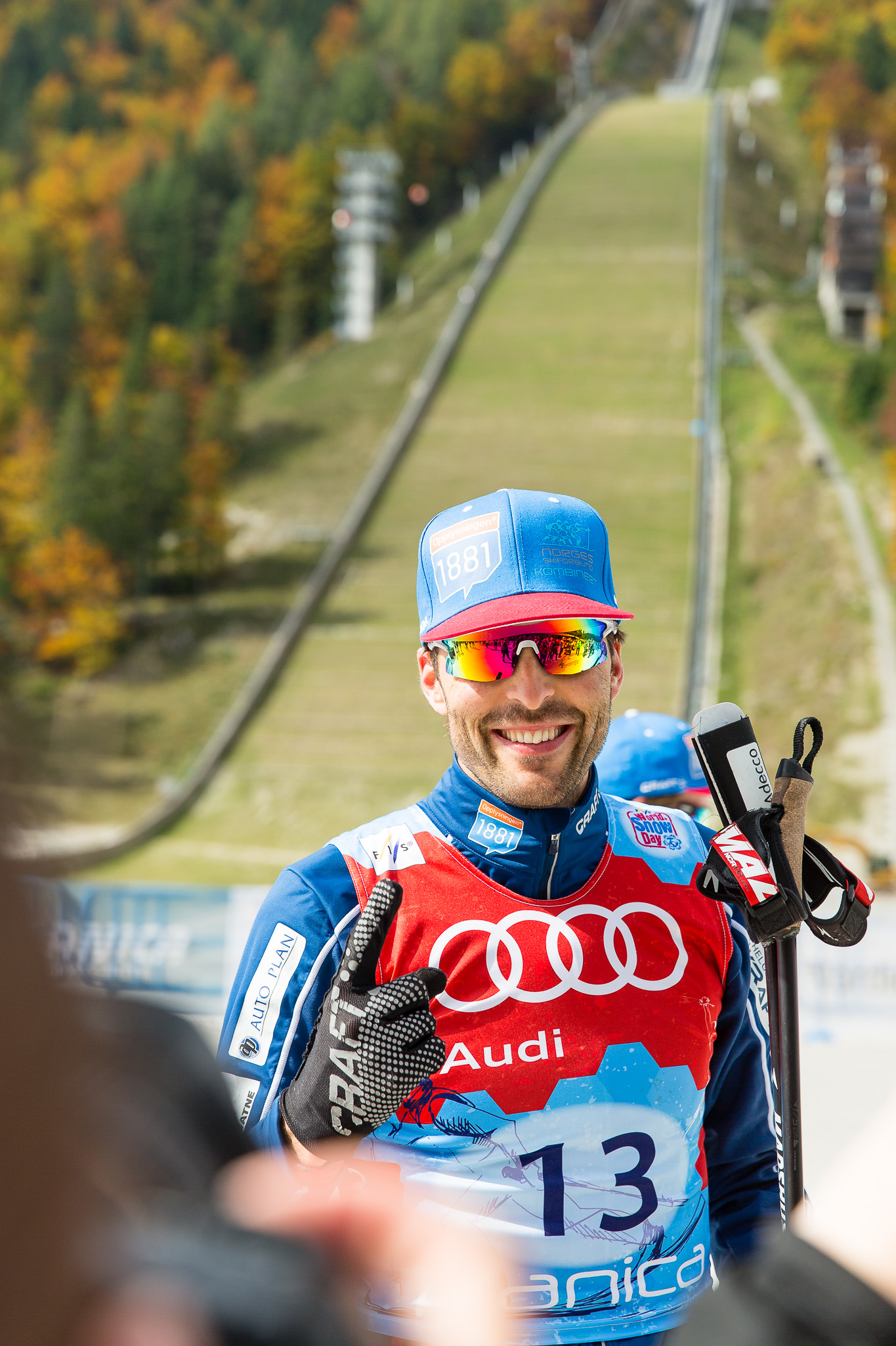 Summer Grand Prix Competition Planica 2017